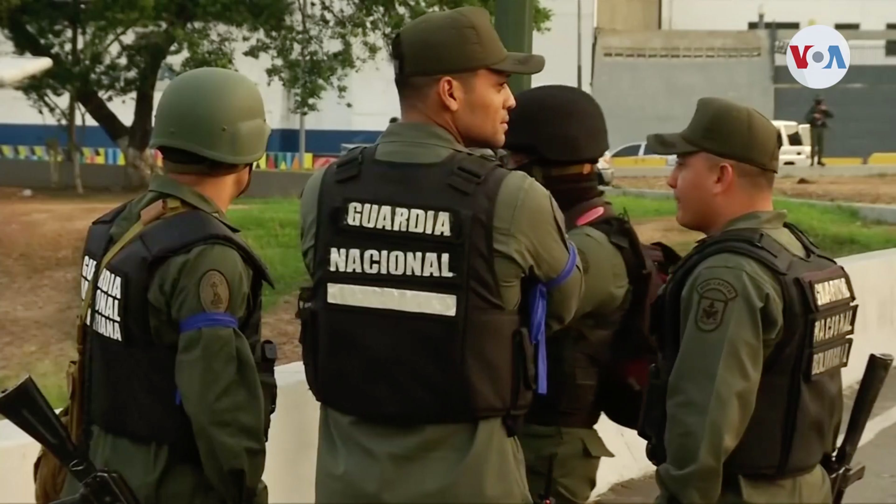 Pro-Guaidó soldiers wearing blue cloth to identify themselves.